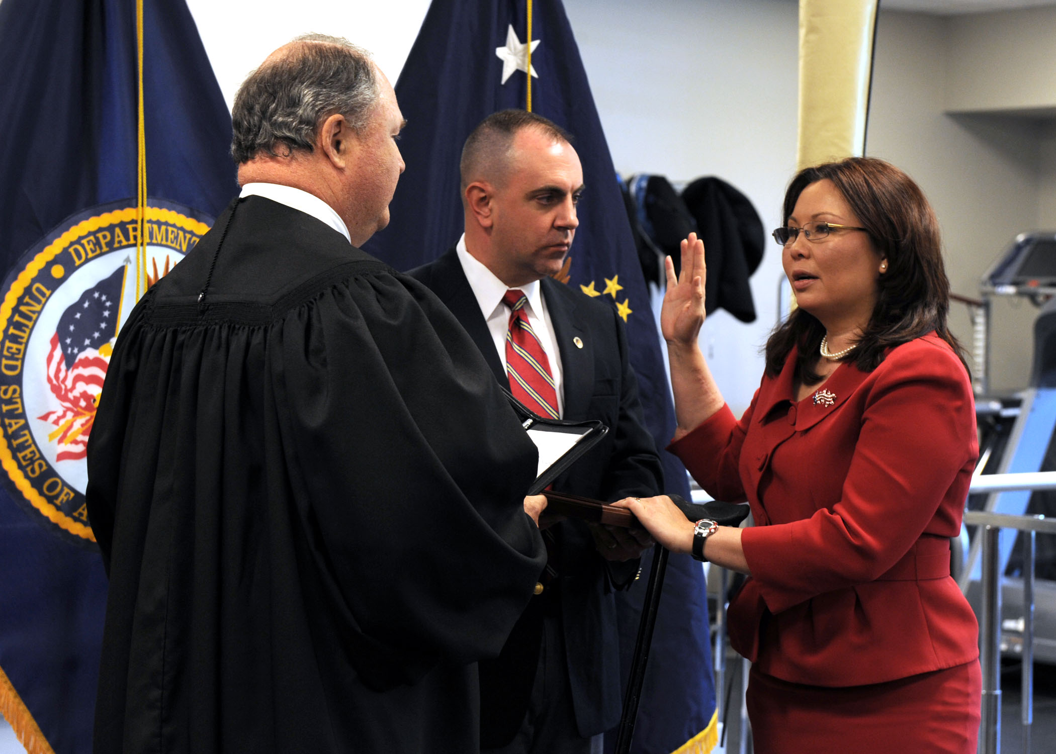 Tammy Duckworth is sworn in as assistant secretary of veterans affairs for public and intergovernmental affairs by Judge John J. Farley on May 20, 2009, at Walter Reed Army Medical Center in Washington, while Bryan Bowlsbey, Duckworth's husband, stands at her side during the ceremony.